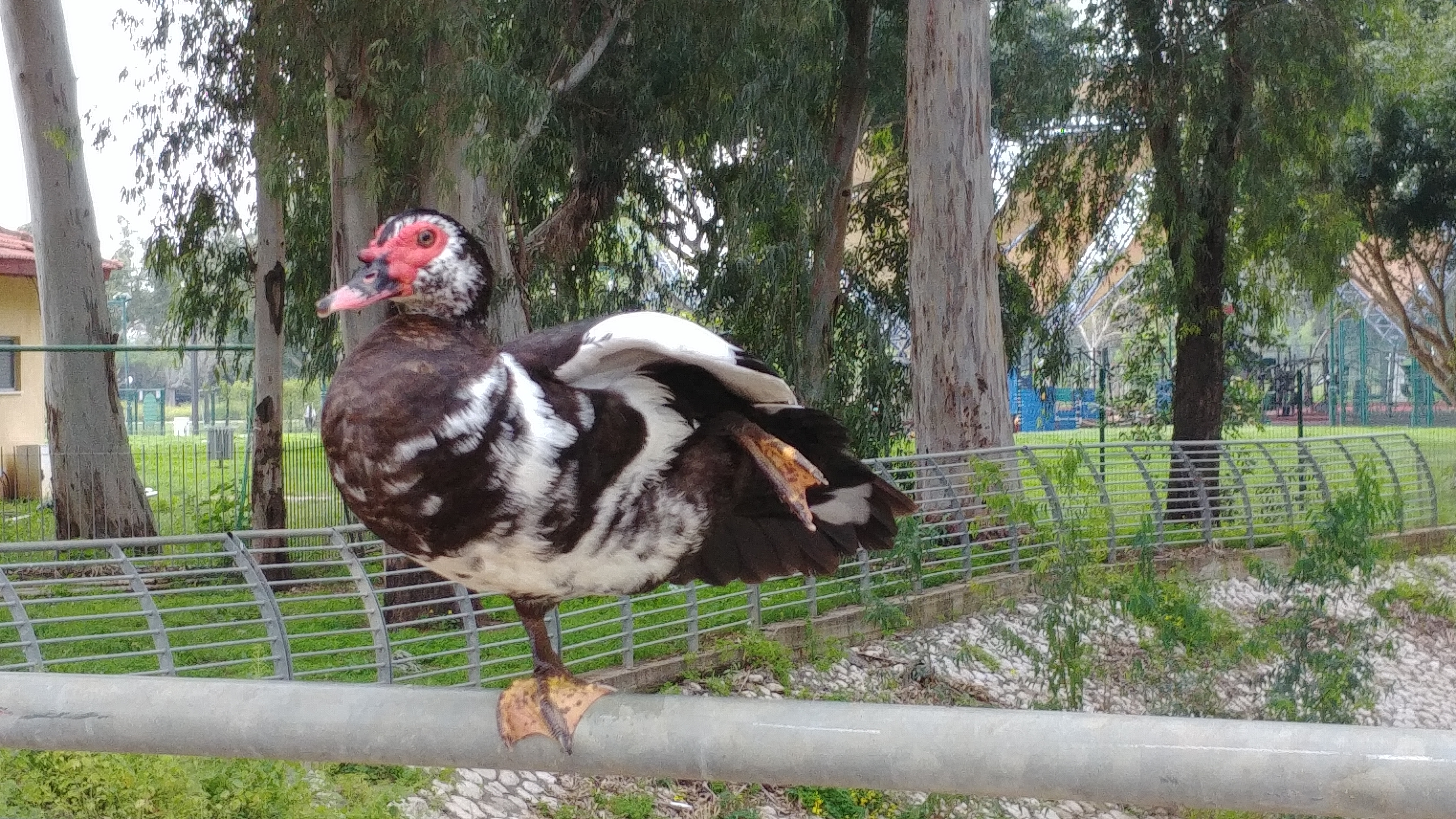 Duck with feathers in black and white. Photographed at the Ramat Gan National Park